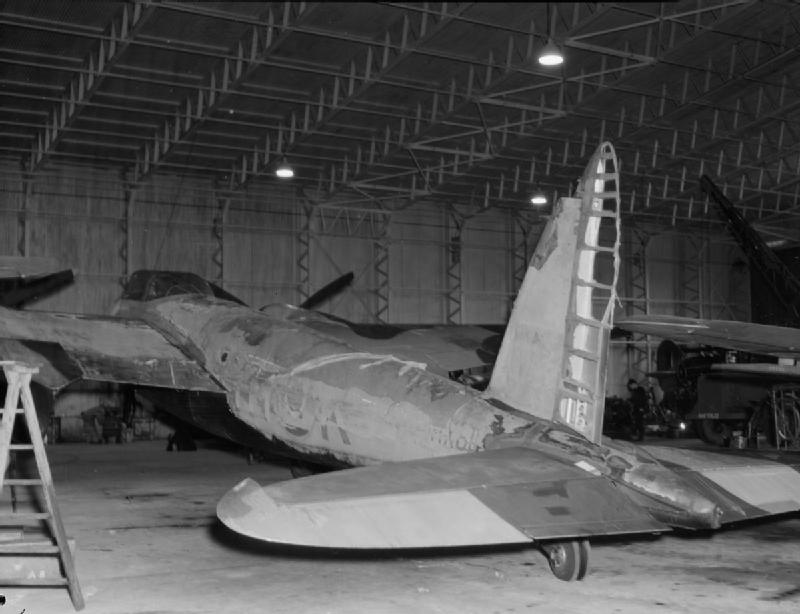 Royal Air Force- Air Defence of Great Britain (adgb), 1943-1944. De Havilland Mosquito FB Mark VI, HX811 'TH-K' of No. 418 Squadron RCAF, in a blister hangar at Holmesley South, Hampshire, after suffering fire damage following the explosion of a flying bomb which HX811's crew shot down during a 'Diver' patrol.